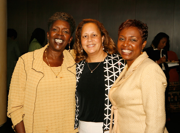 Rep. Stephanie Tubbs Jones of Ohio (left), Rep. Laura Richardson of California (middle) and Rep. Yvette Clark of New York (right)